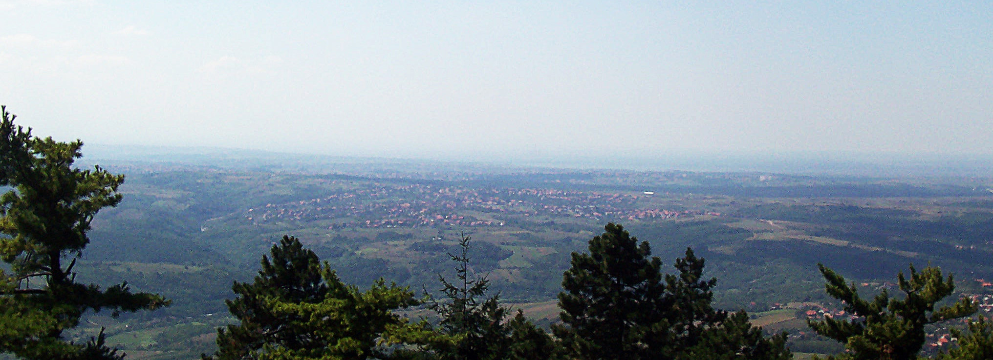 Rušanj, photographed from a peak of Avala.